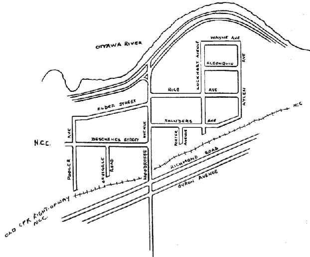 Woodroffe North locator map.